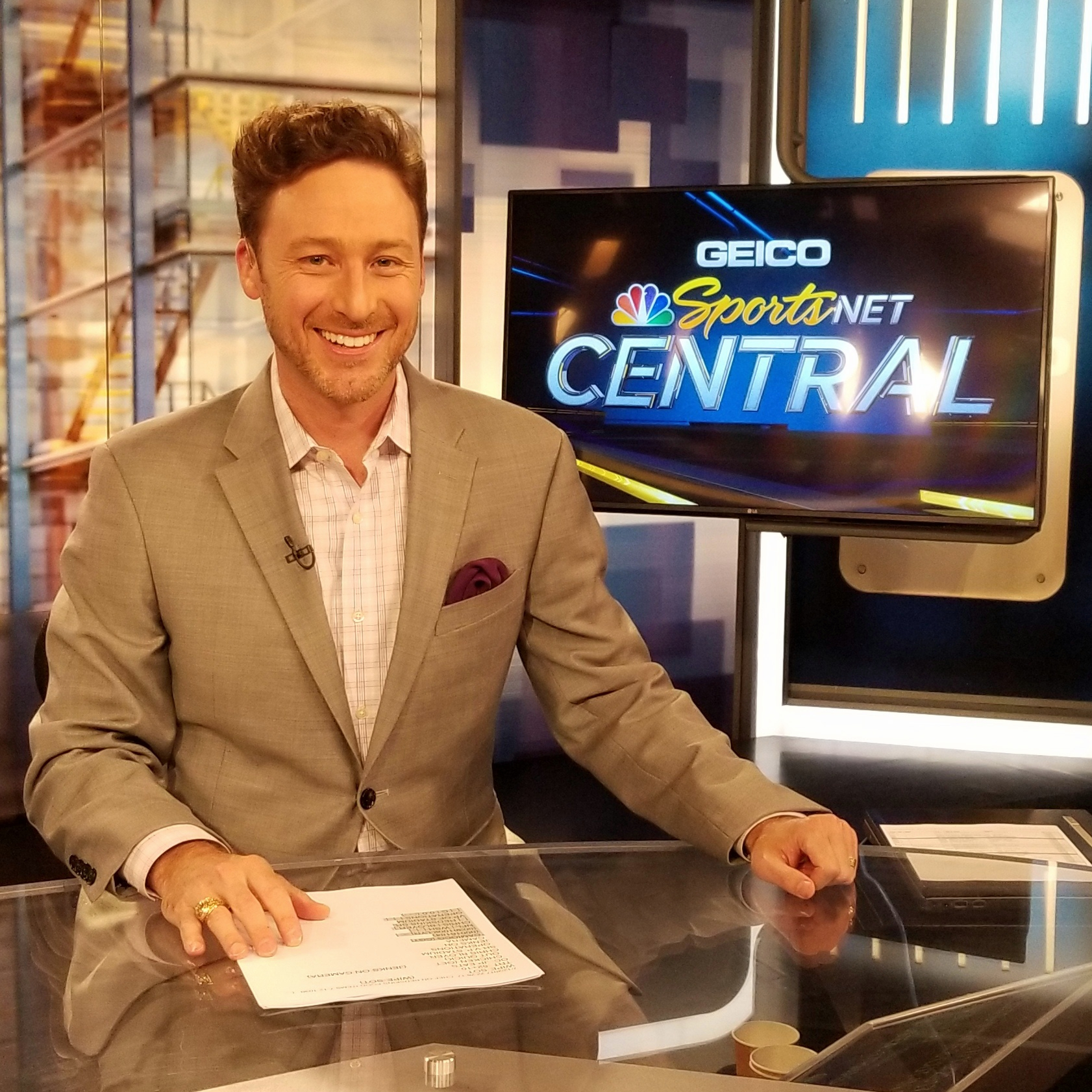 Picture of CSN Mid-Atlantic sportscaster Michael Jenkins